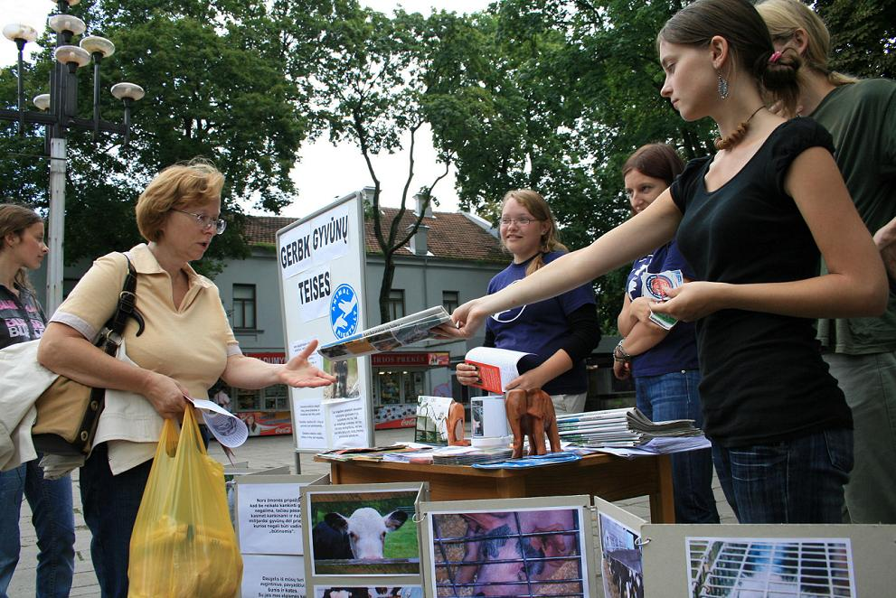 Animal rights street stall in Kaunas, Lithuania (run by local AR group Respect Animal Rights)